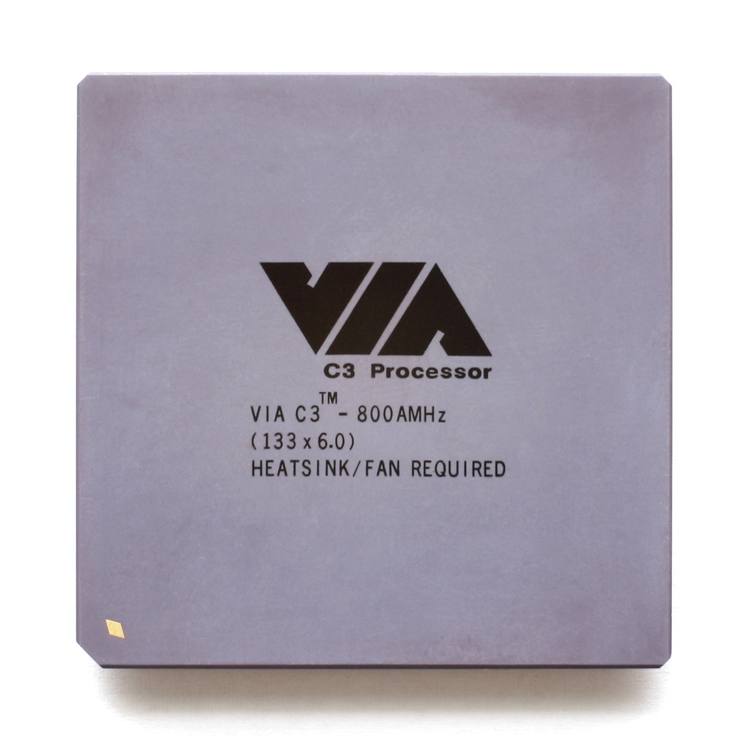 CPU VIA C3 - no Goldcap.